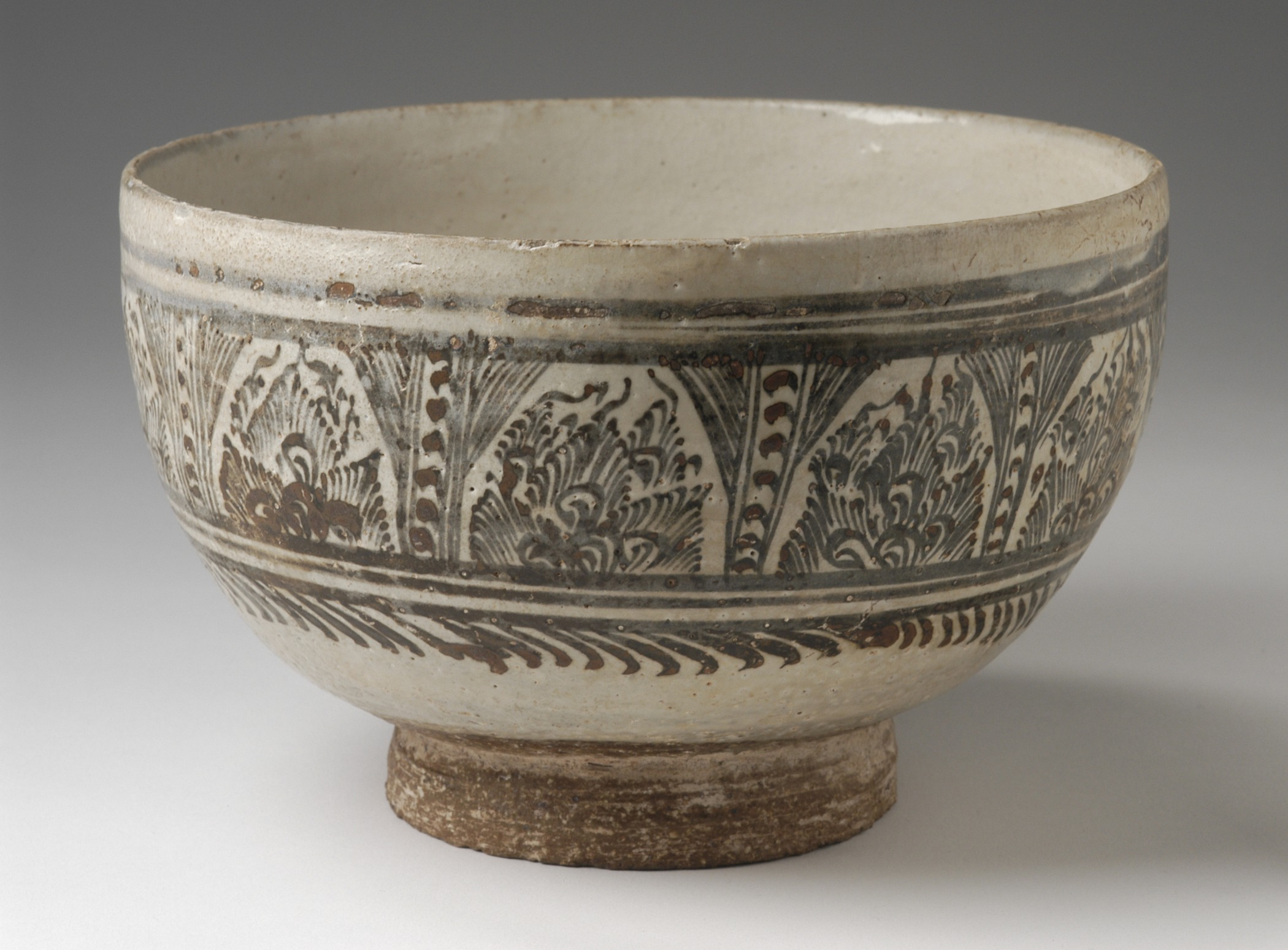 Thailand, Sukhothai, 15th-16th century Furnishings; Serviceware Stoneware with underglaze black painted decoration 4 3/8 x 7 1/4 in. (11.11 x 18.42 cm) Gift of Margot and Hans A. Ries (M.73.119.21) South and Southeast Asian Art